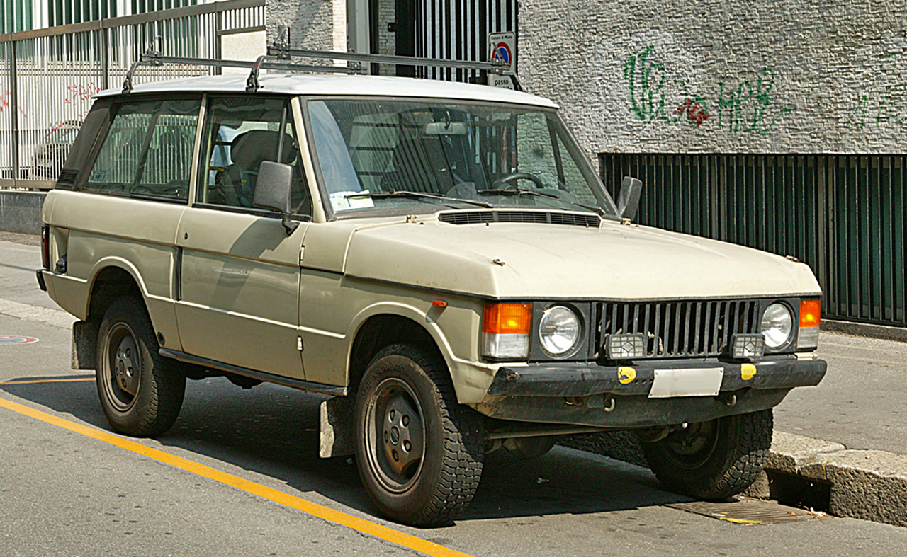 The First-generation Range Rover, ealy 2door model.